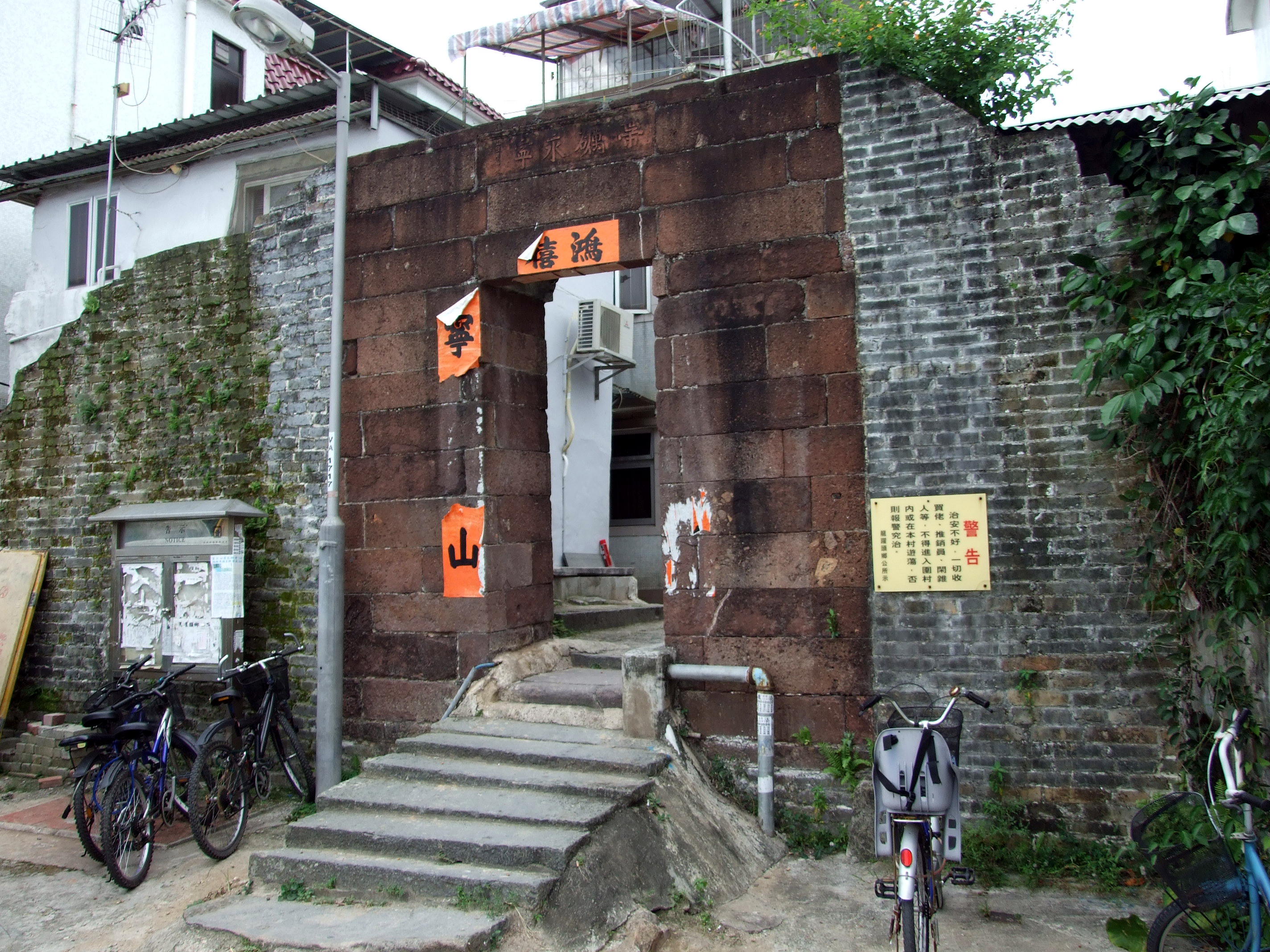 Yongning Gate of the Wing Ning Wai.